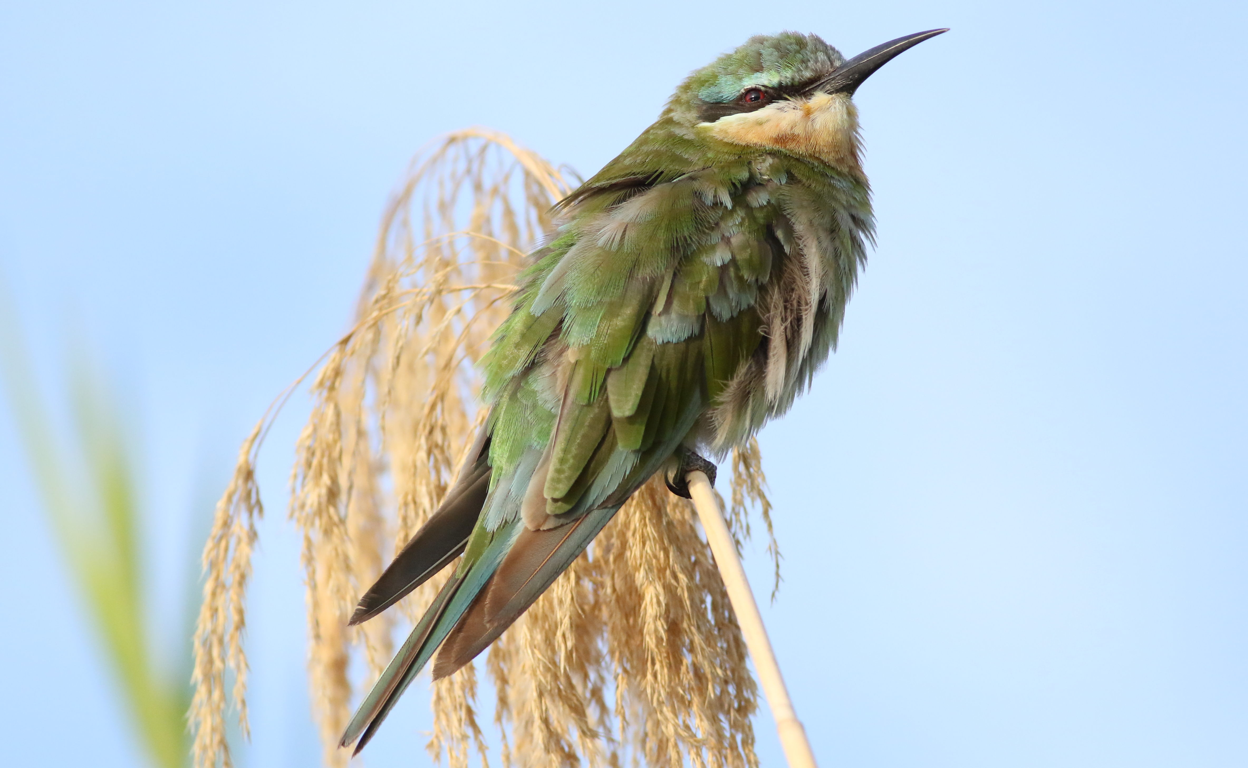 Blue-cheeked bee-eater, Merops persicus, Chobe National Park, Botswana